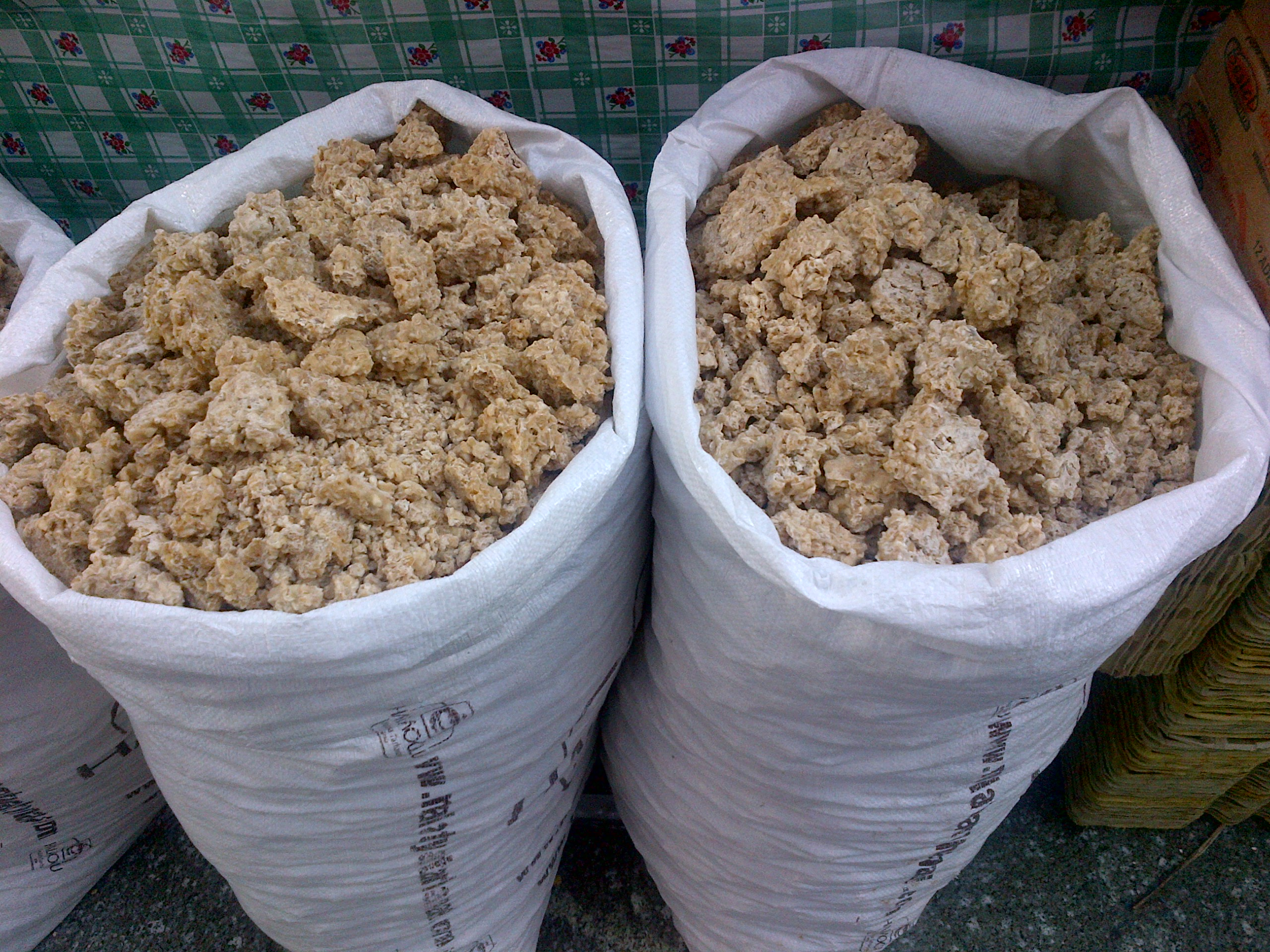 Sacks of "tarhana" at an ecological food fair in Ankara, Turkey.